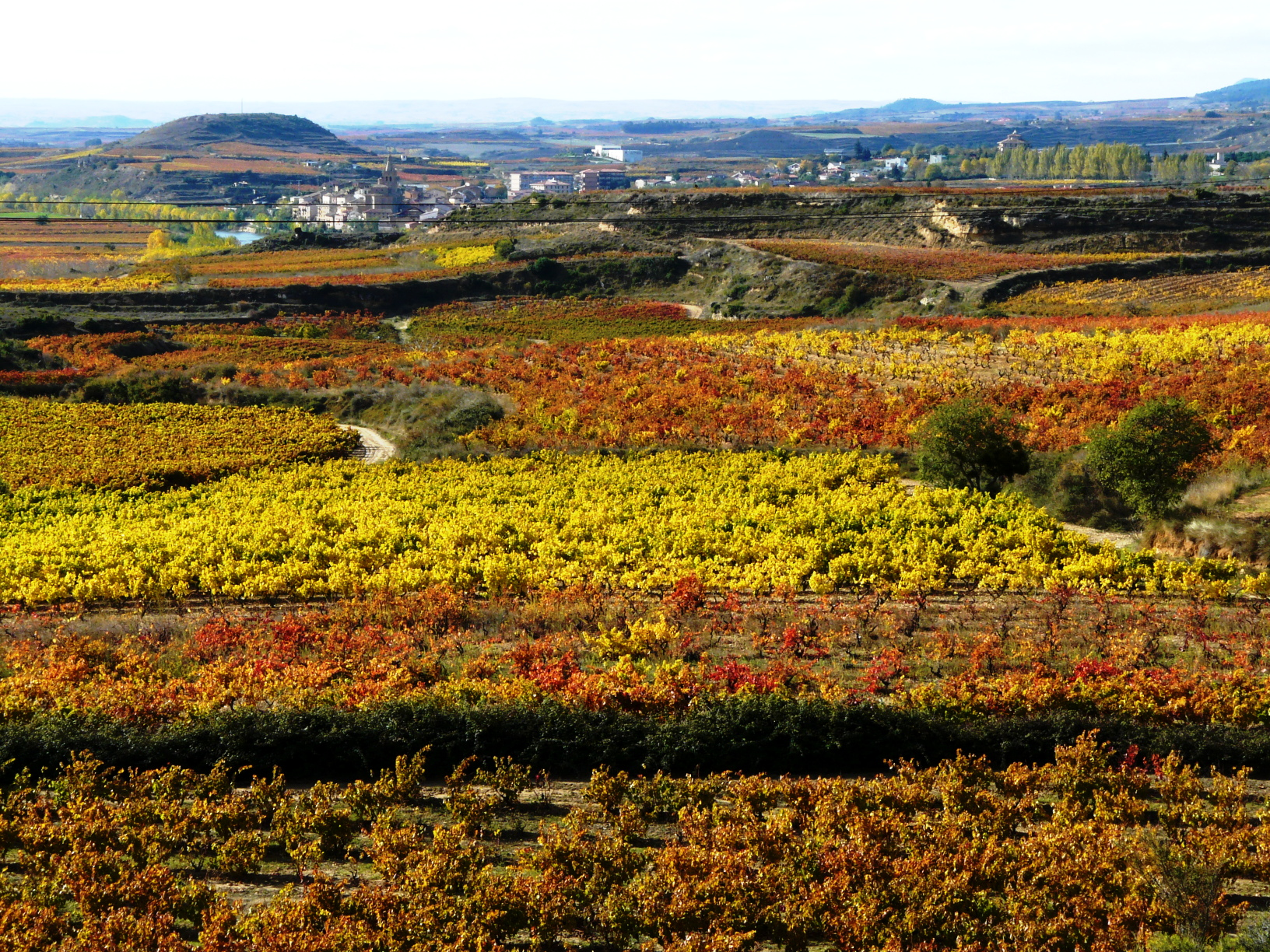 Vineyards in Briñas, Rioja, Spain